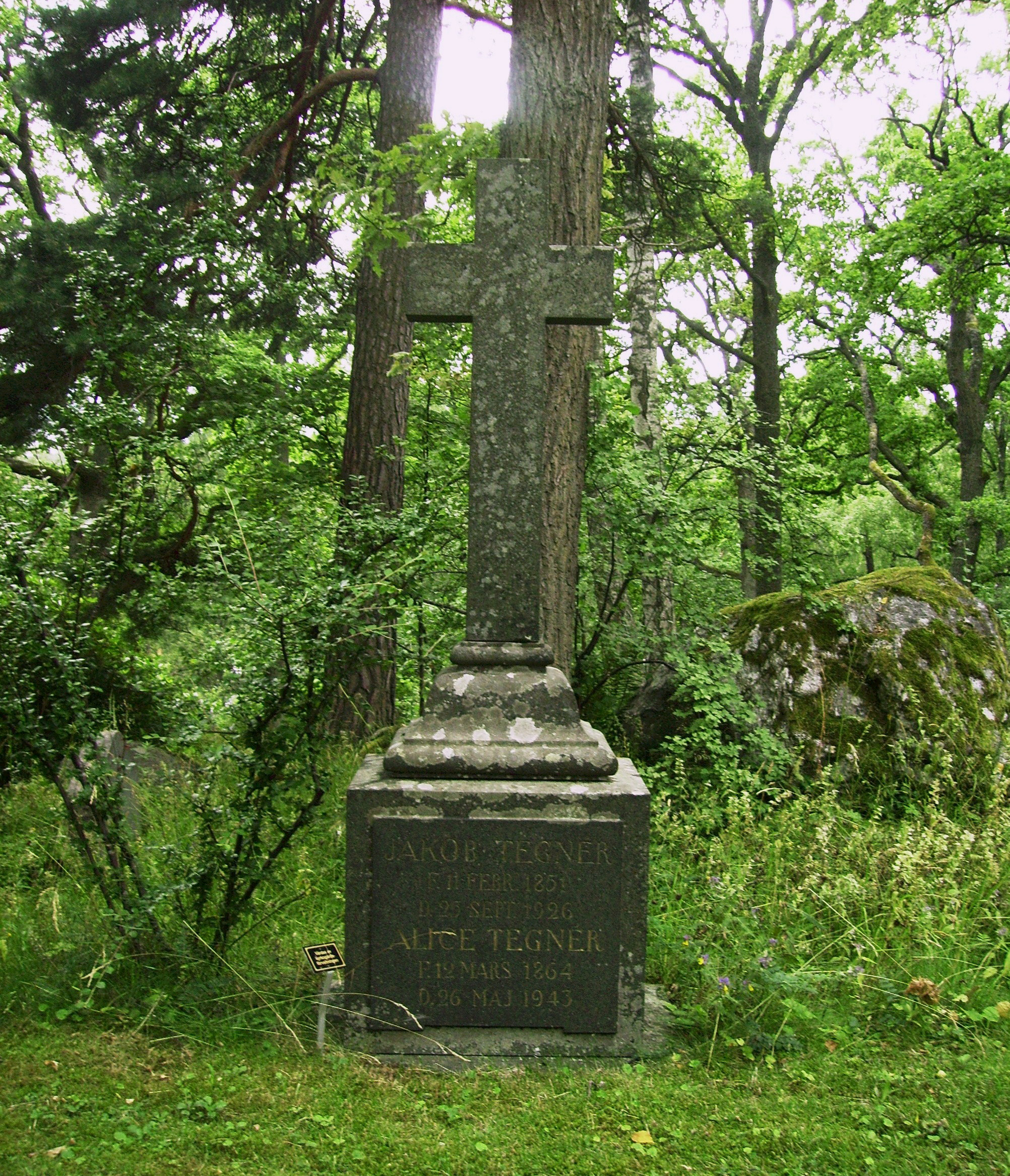 Picture of Alice Tegnér's grave at Djursholms burial ground